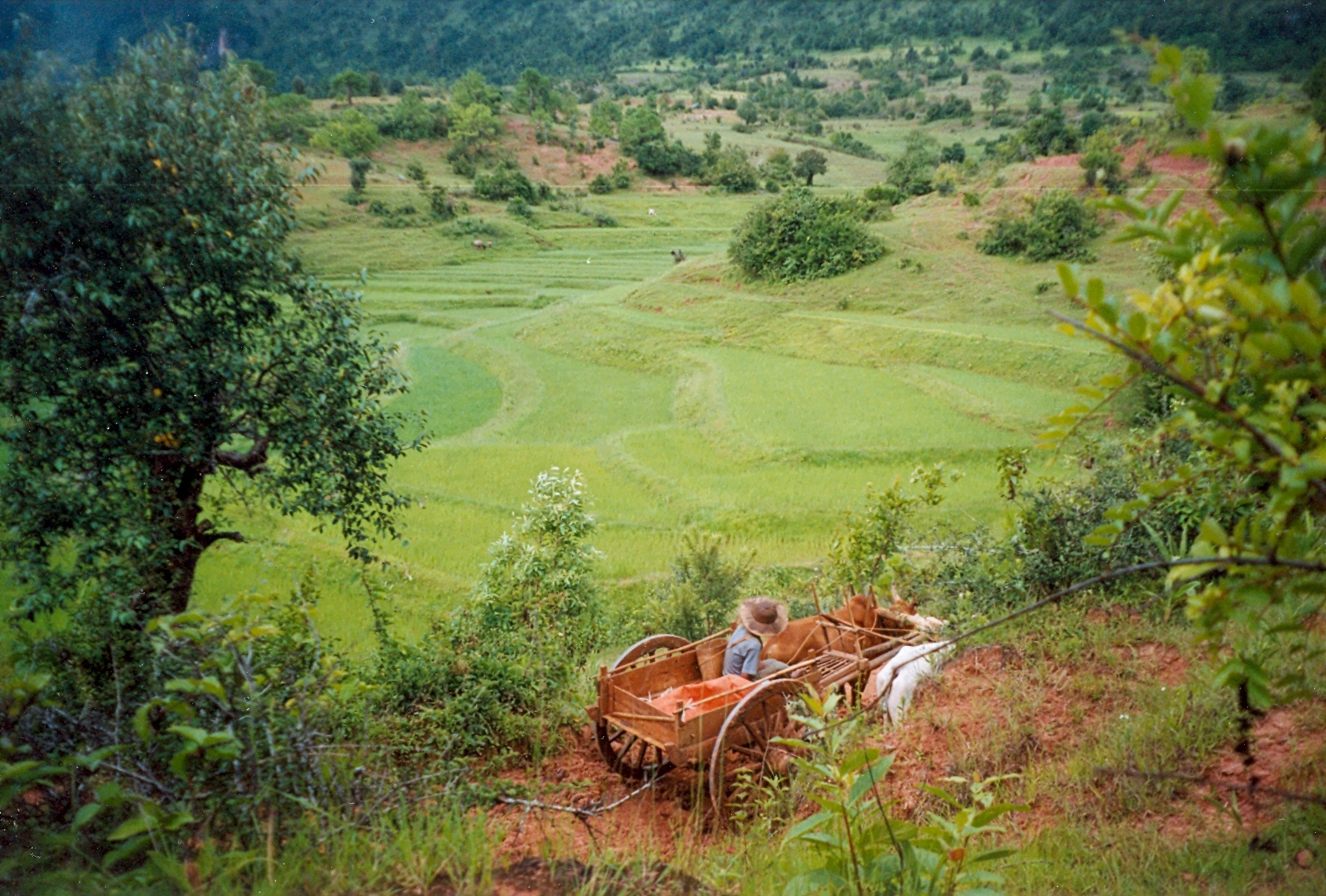 Rural landscape, Shan State, Burma.